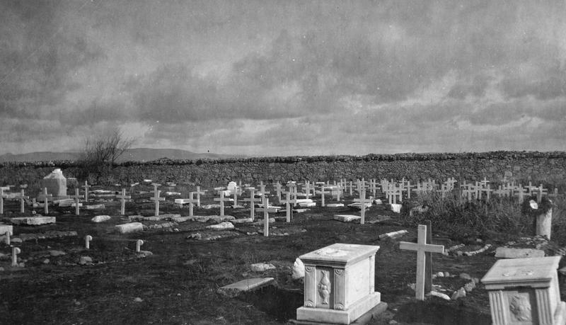 Armenian cemetery of Afyon-Karahisar. Photograph taken 7th January 1920.